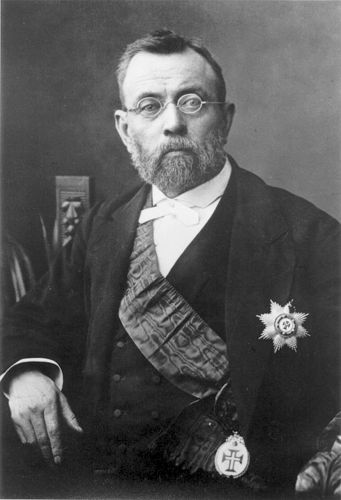 Presidential portrait of Baron Ferdinand von Mueller, Royal Society of Victoria, Australia